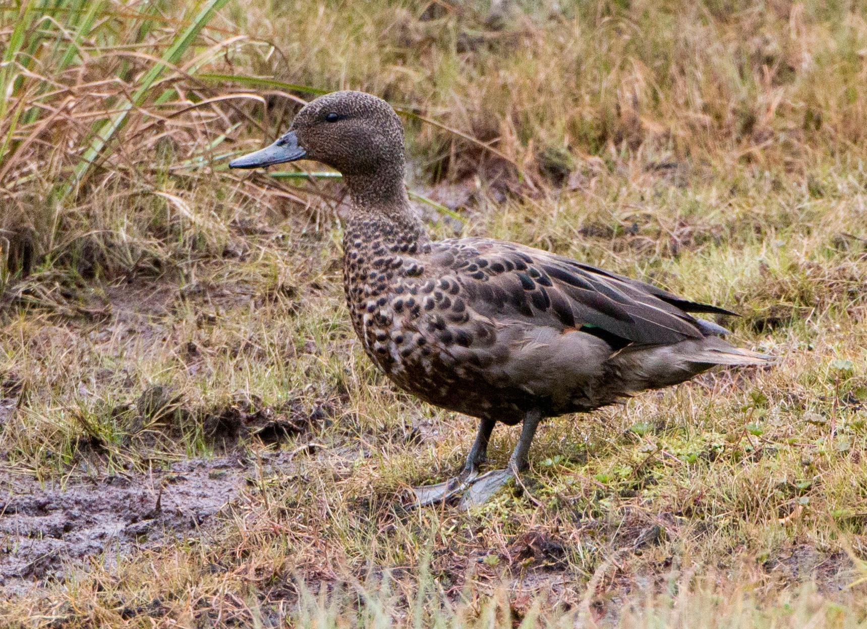 Andean Teal on the shores of Laguna la Magdalena, Sangay NP, Ecuador